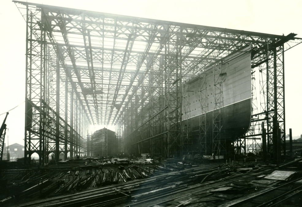 Photograph of the nearly completed vessel 'Mauretania' in September 1906. The West shed used to build the “Mauretania” was 728 ft long x 95 ft wide x 130 ft high complete with a glass roof. It survived until 1959. RMS MAURETANIA was one of the most famous ships ever built on Tyneside. Reference: TWAS: 2931.NT.13 (Copyright) We're happy for you to share this digital image within the spirit of The Commons. Please cite 'Tyne & Wear Archives & Museums' when reusing. Certain restrictions on high quality reproductions and commercial use of the original physical version apply though; if you're unsure please . To purchase a hi-res copy please quoting the title and reference number.